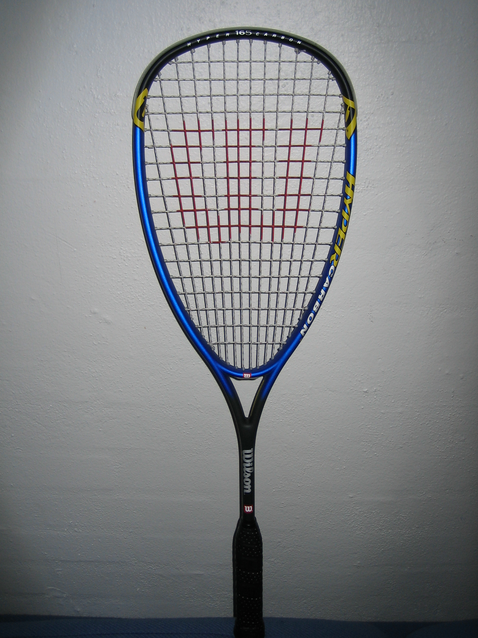 Squash racquet